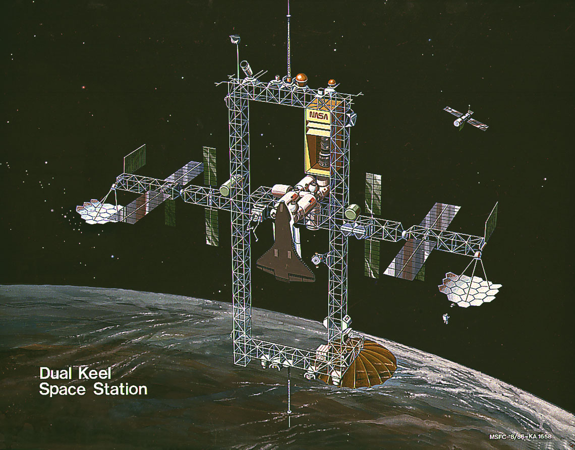 Dual-keel design (1986), Space Station Freedom